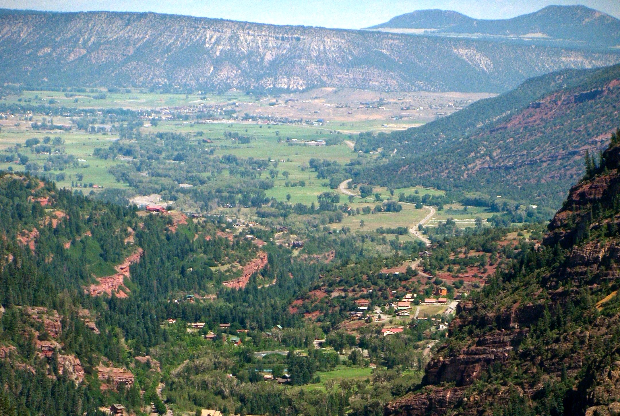 Ouray County, Colorado view from Ouray to Ridgway to Loghill Village